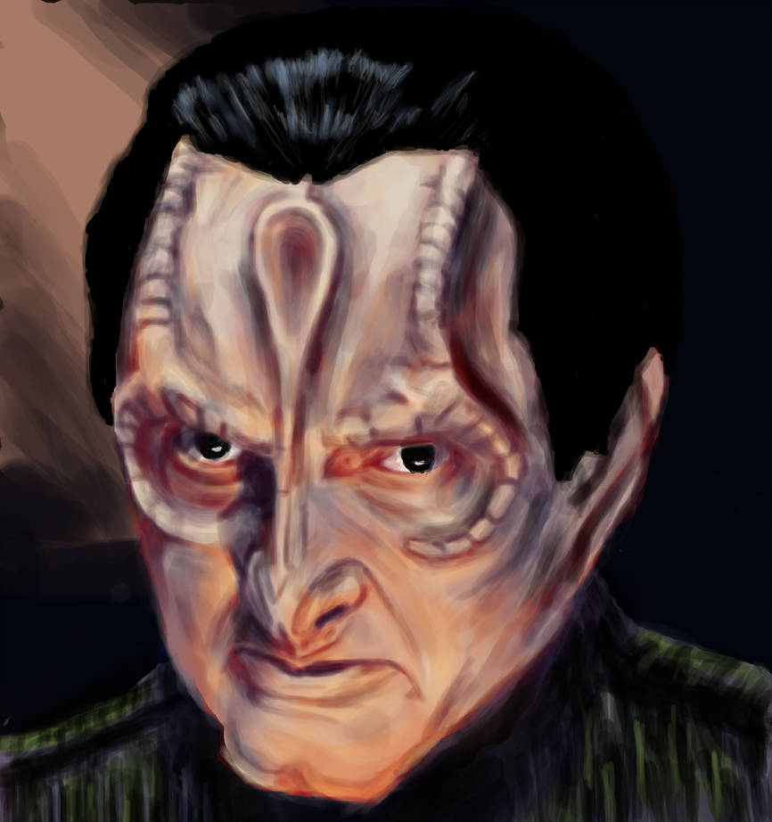 Painting of Andrew Robinson as Garak